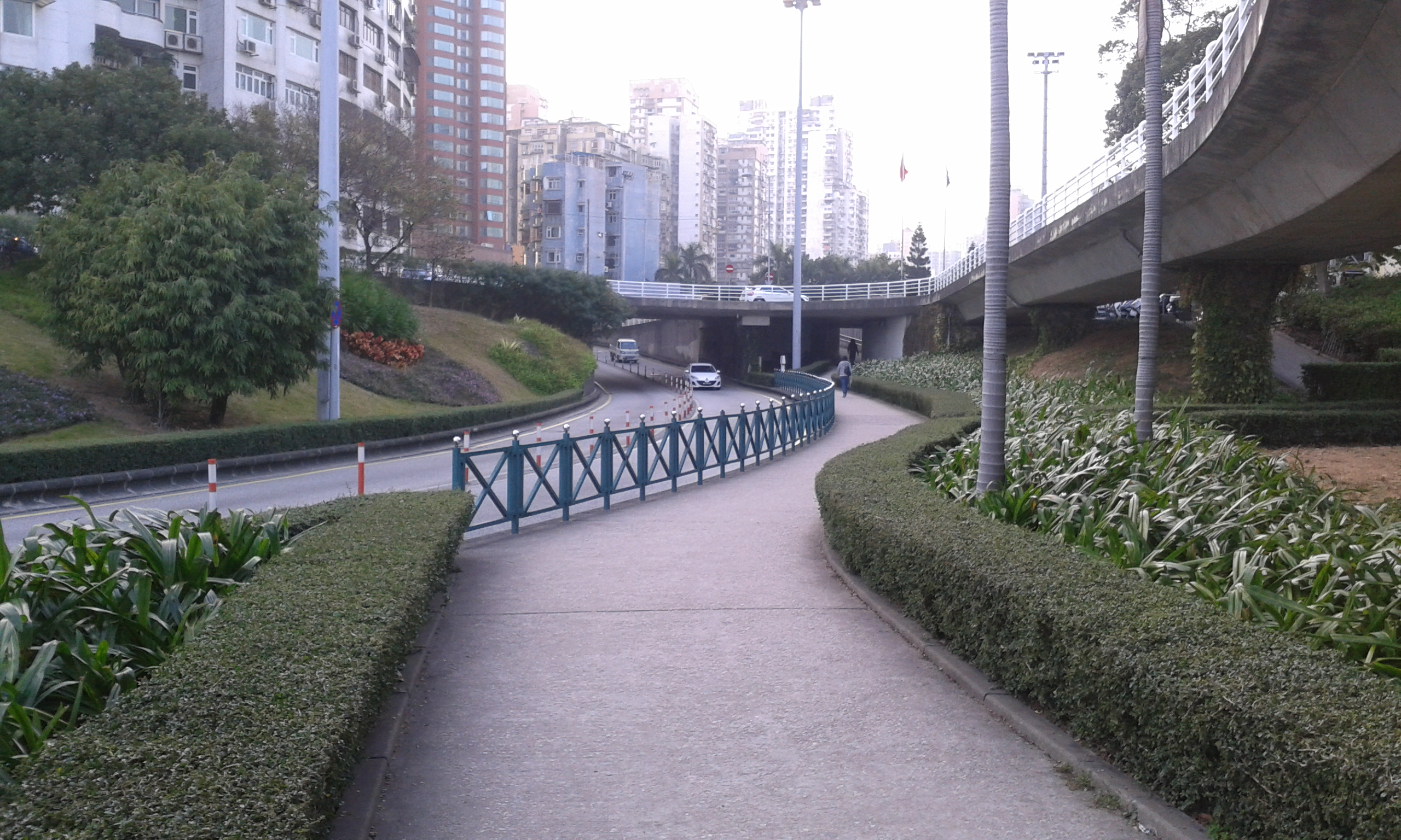 A Part of Estrada do Reservatorio